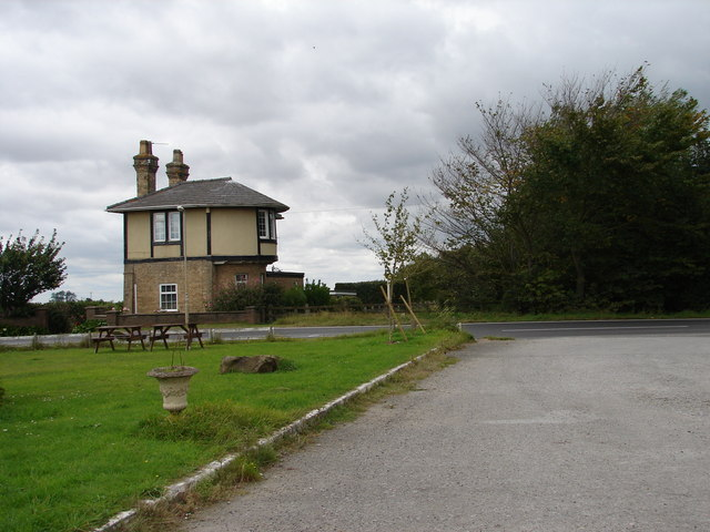 Converted Railway Building Unusual design. Seems to have once been a signal-box.